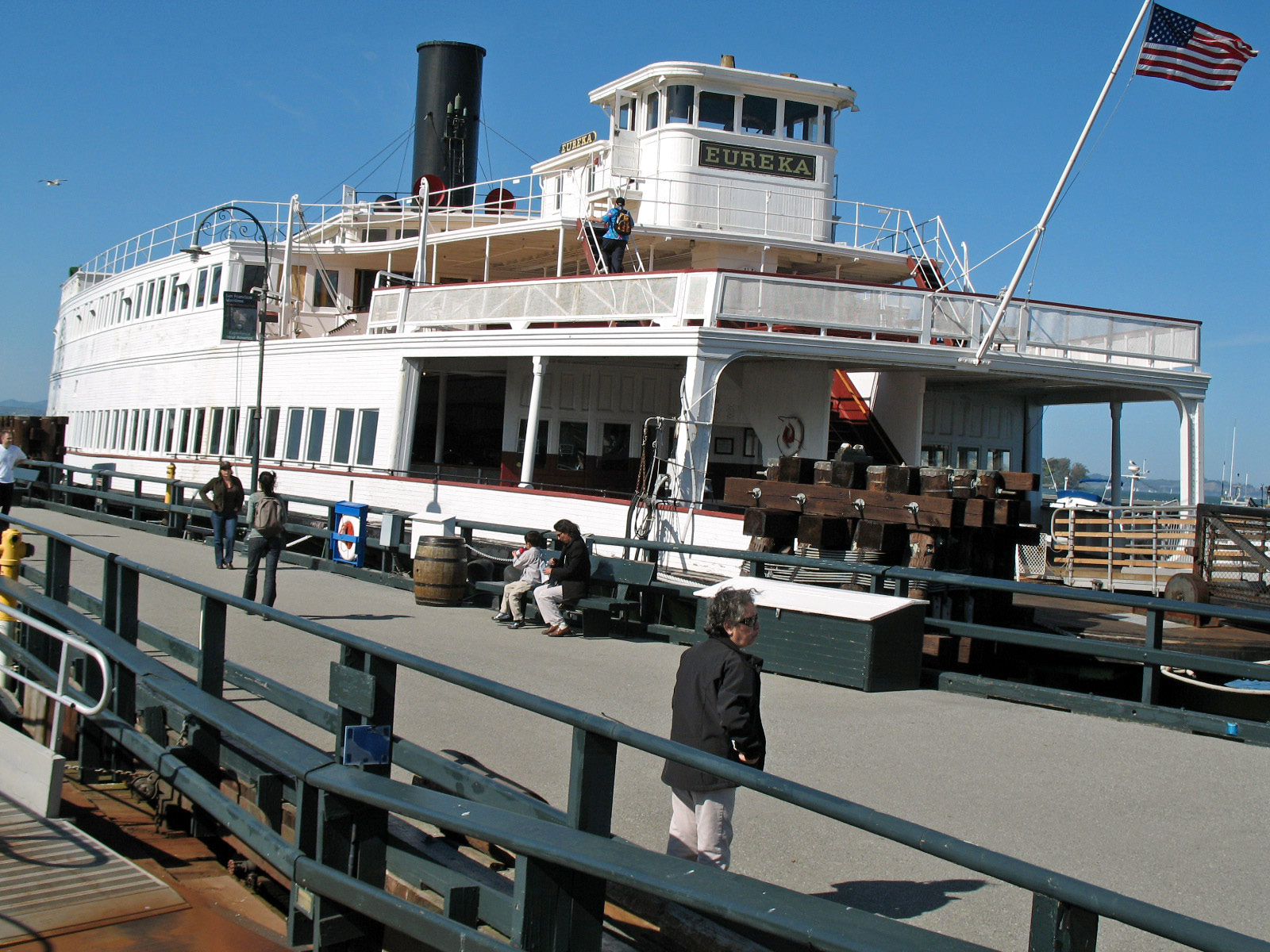 National Register of Historic Places in San Francisco, California. "Eureka", San Francisco Maritime National Historic Park, San Francisco, California, USA. Photographed 2008-03-08 by Mike Hofmann from Hyde Street Pier walkway. The "Eureka" is a steam ferryboat built in 1890.